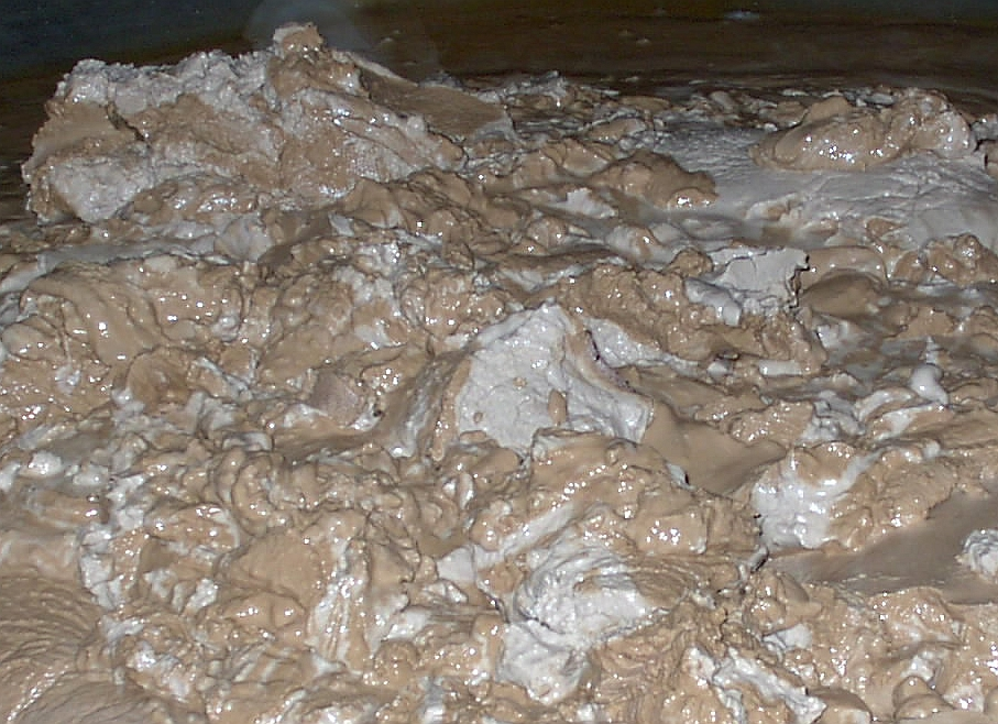 A mixture of diatomaceous earth and yeast. The diatomaceous earth was used to filter yeast and impurities out of beer before canning. Photograph by Ginkgo100 taken at Oskar Blues brewery, Lyons, Colorado.